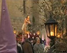 Inicio de la Procesión de la Carrera. Viernes Santo.Ledesma